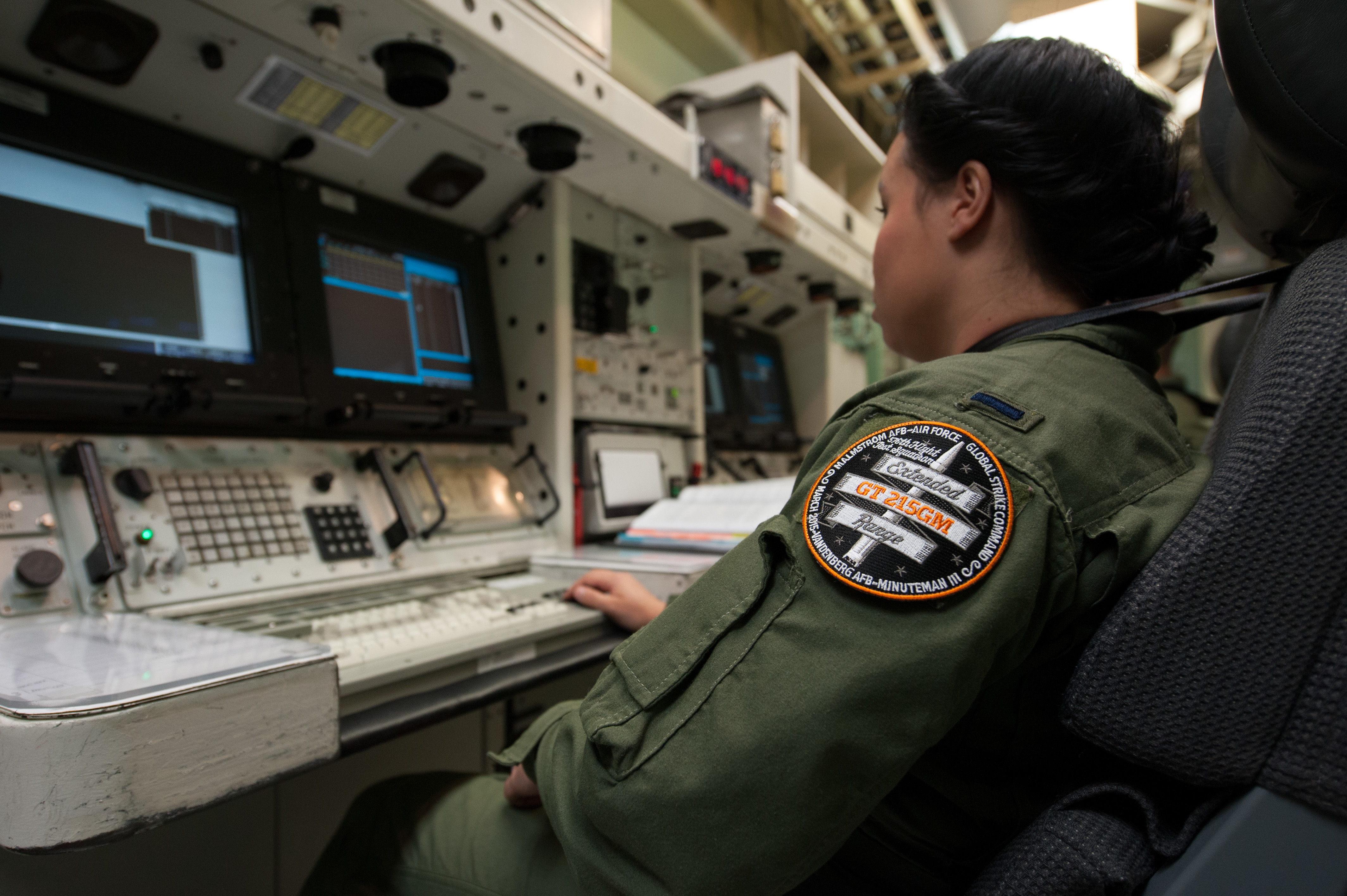 In preparation for an unarmed Minuteman III missile launch, 1st Lt. Kimberly Erskine, Missile Combat Crew commander from Malmstrom Air Force Base, practices procedures March 19, 2015, at Vandenberg Air Force Base, Calif., in preparation for the launch of an unarmed Minuteman III intercontinental ballistic missile. Both F.E. Warren and Malmstrom AFB personnel actively worked with the 30th Space Wing and the 576th Flight Test Squadron to perform two test launches in less than a week, providing a cradle-to-grave evaluation of the system, which started at the missile wings and ended more than 6,000 miles away at a test range near Guam.